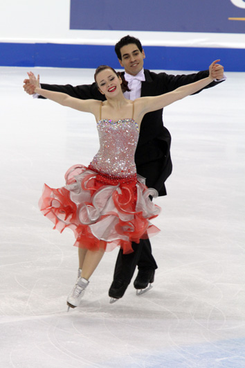 Anna Cappellini and Luca LaNotte at the the 2010 World Championships. Compulsory dances - Golden Waltz